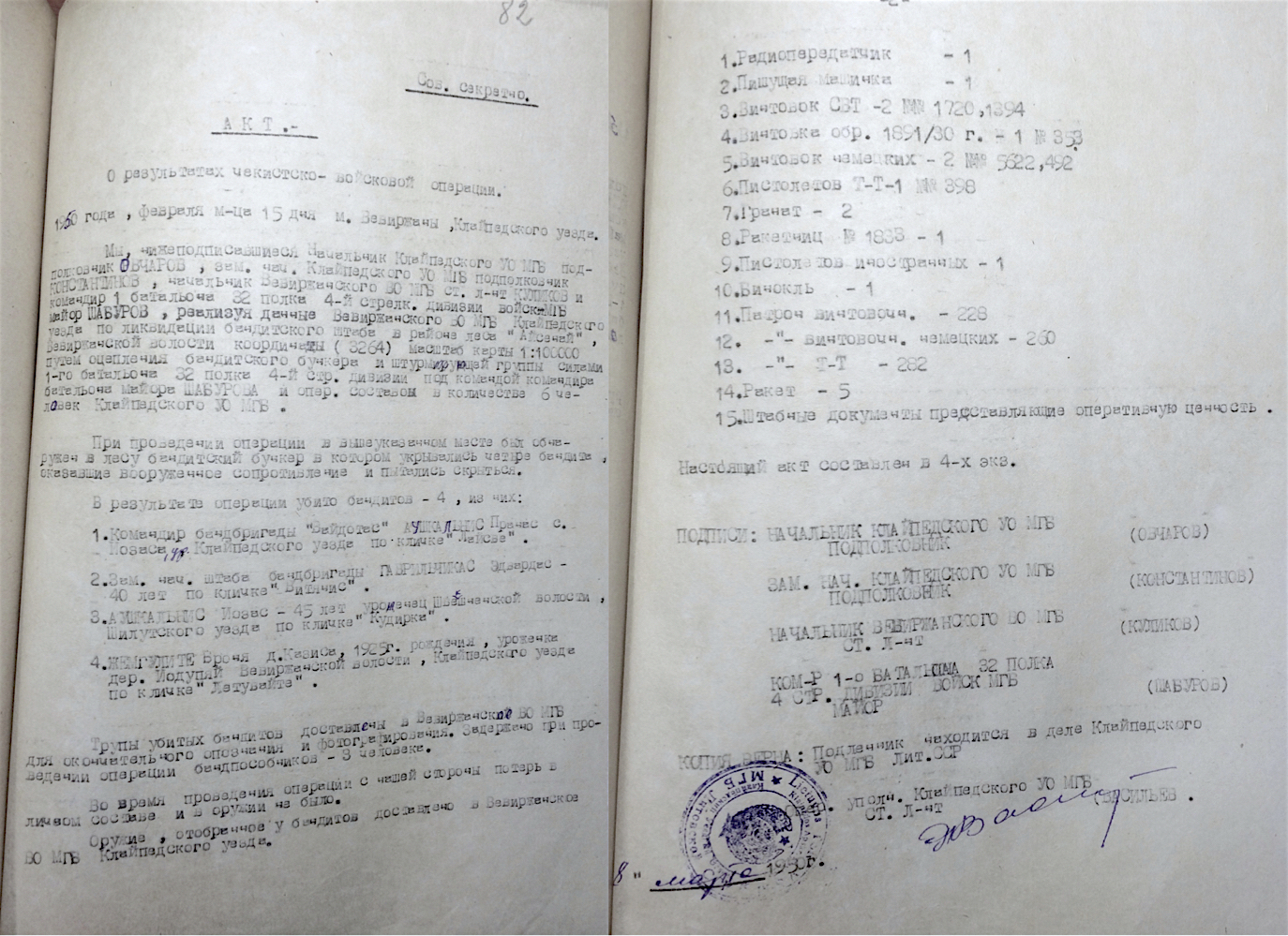 The report of MGB about their attack on the Lithuanian freedom fighters bunker